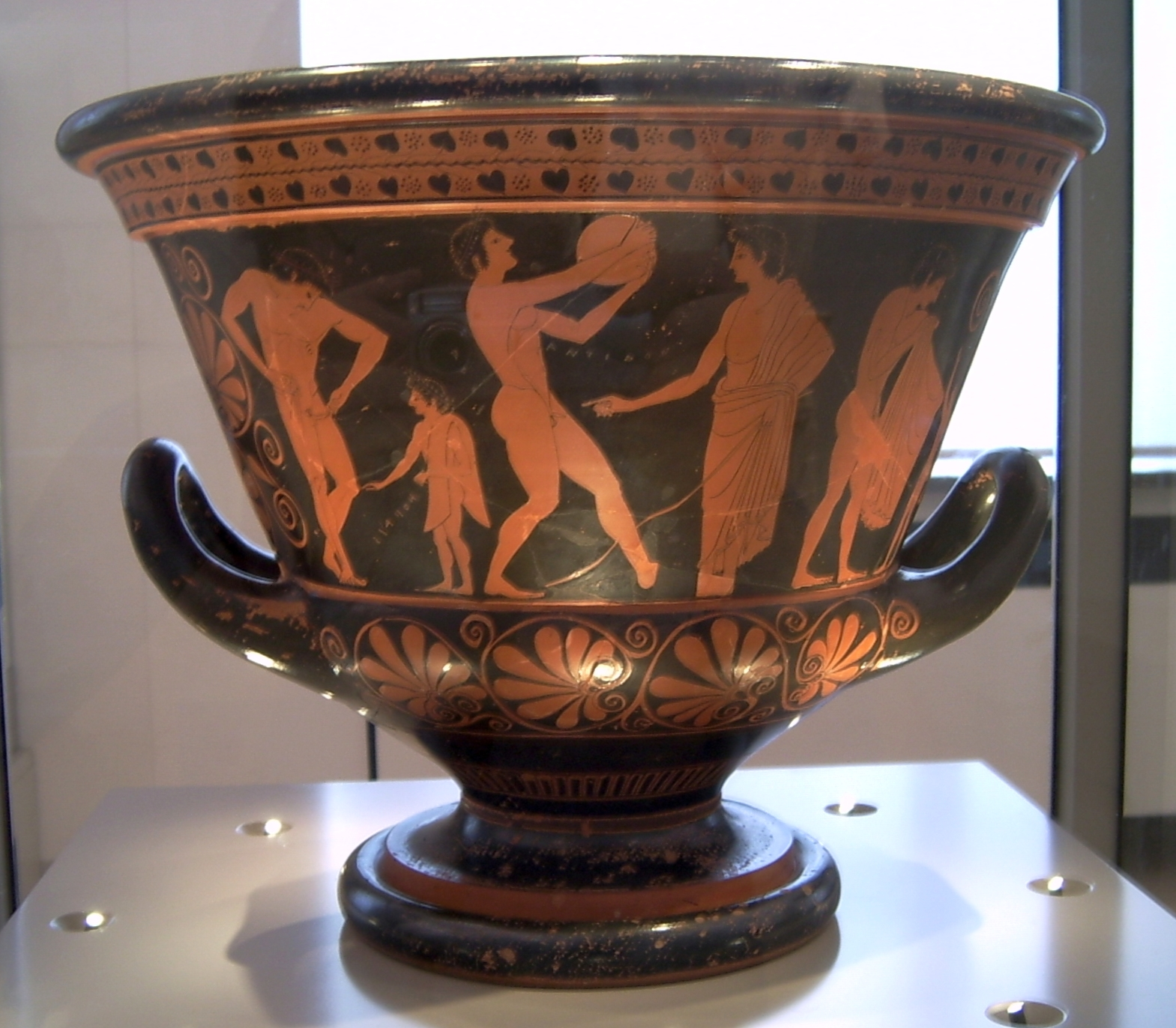 Studies of attitudes. Calyx-krater by Euphronios, Antikensammlung Berlin 2180. From Capua.